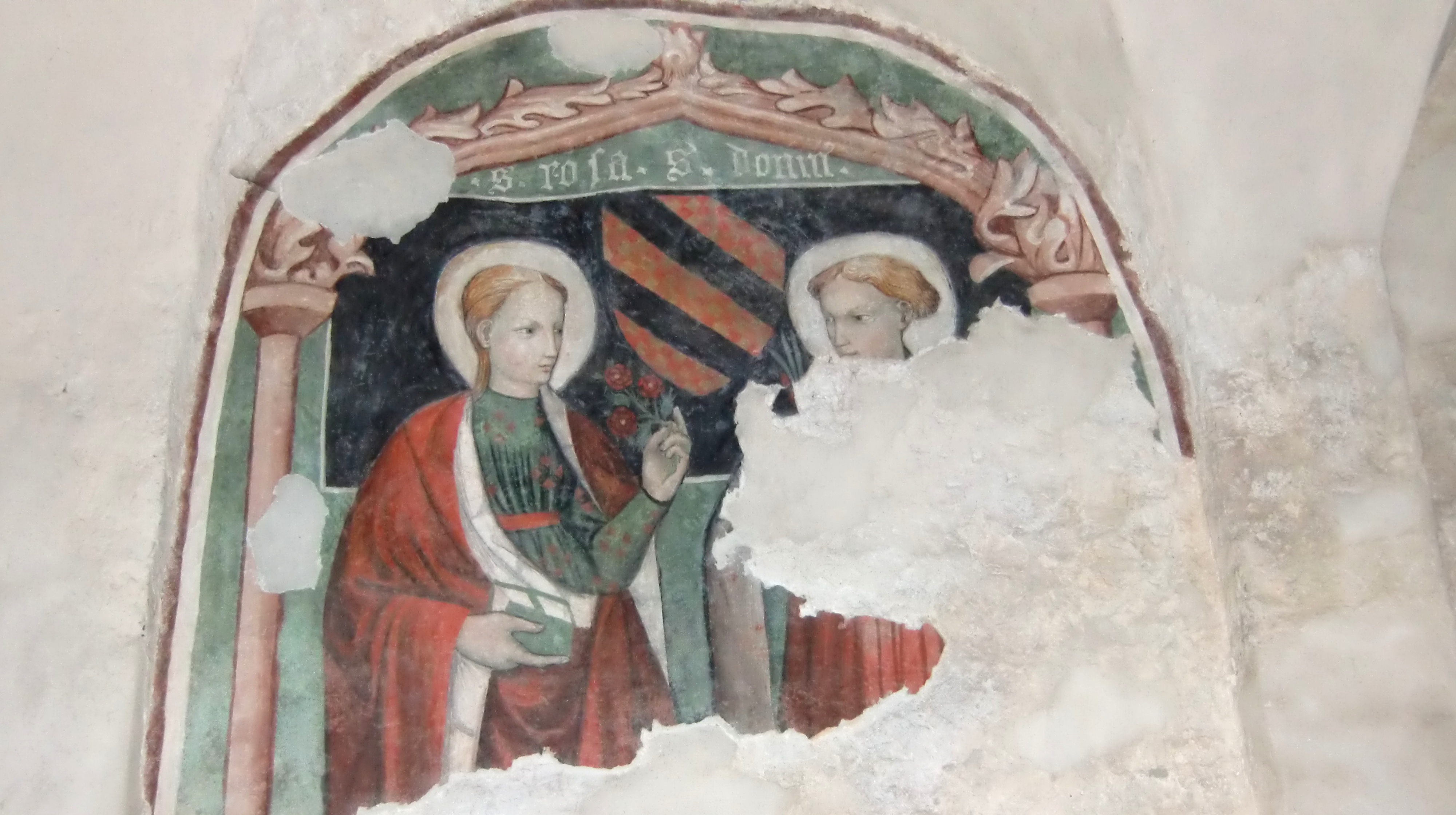 Unknown painter of XV century (Aimone Duce?), Santa Rosa e San Donnino, fresco, Duomo di Ivrea (ambulatory), Ivrea